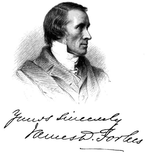 Picture of James David Forbes, the Scottish physicist